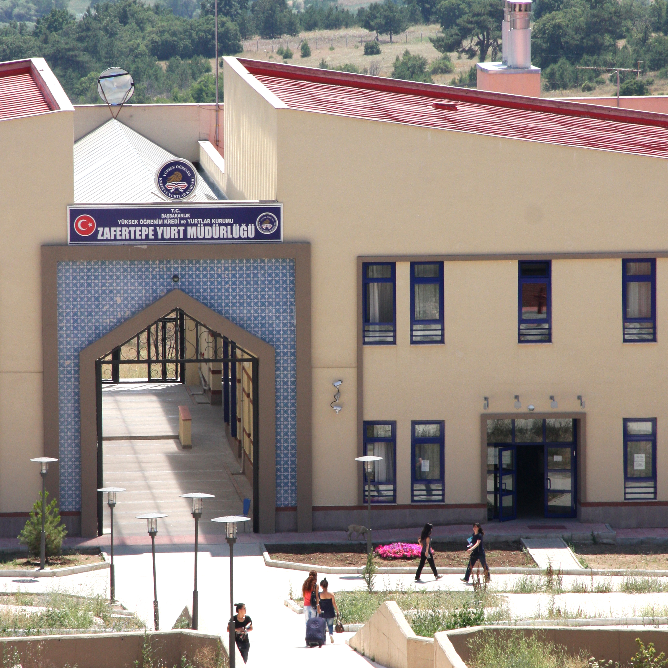 Zafertepe Dormitory in Evliya Çelebi Campus of Kütahya Dumlupınar University